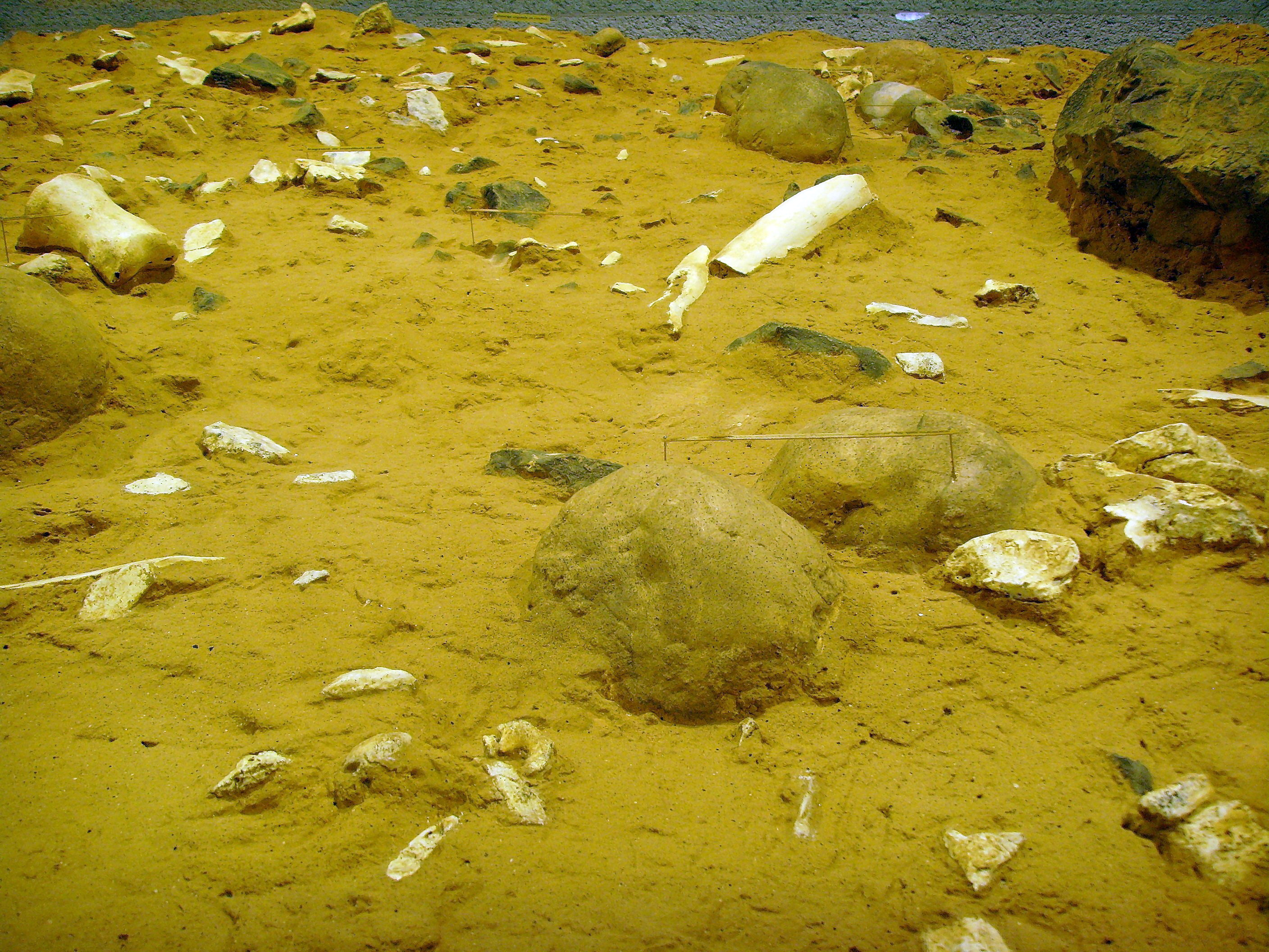 Arago-cave, near Tautavel (Perpignan-region), France: archaeological context of finds as displayed in the Musée de Préhistoire, Tautavel